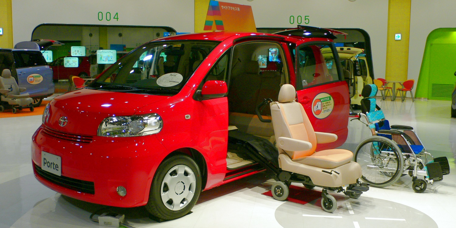 Toyota_Porte(2005 welfare spec) photographed in MEGAWEB.